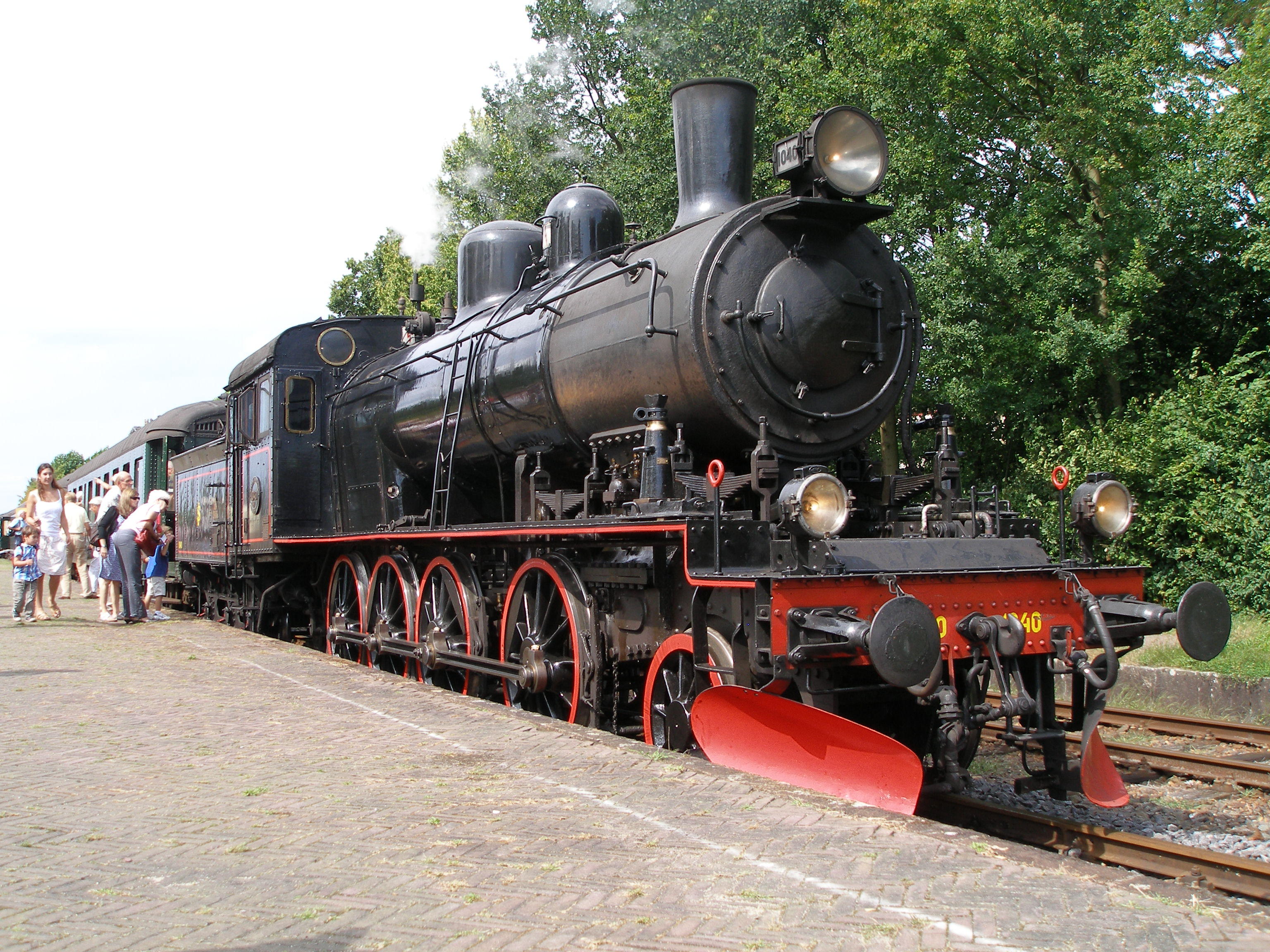 Stoomlocomotief E2 1040 van de Zuid-Limburgse Stoomtrein Maatschappij met trein in Simpelveld